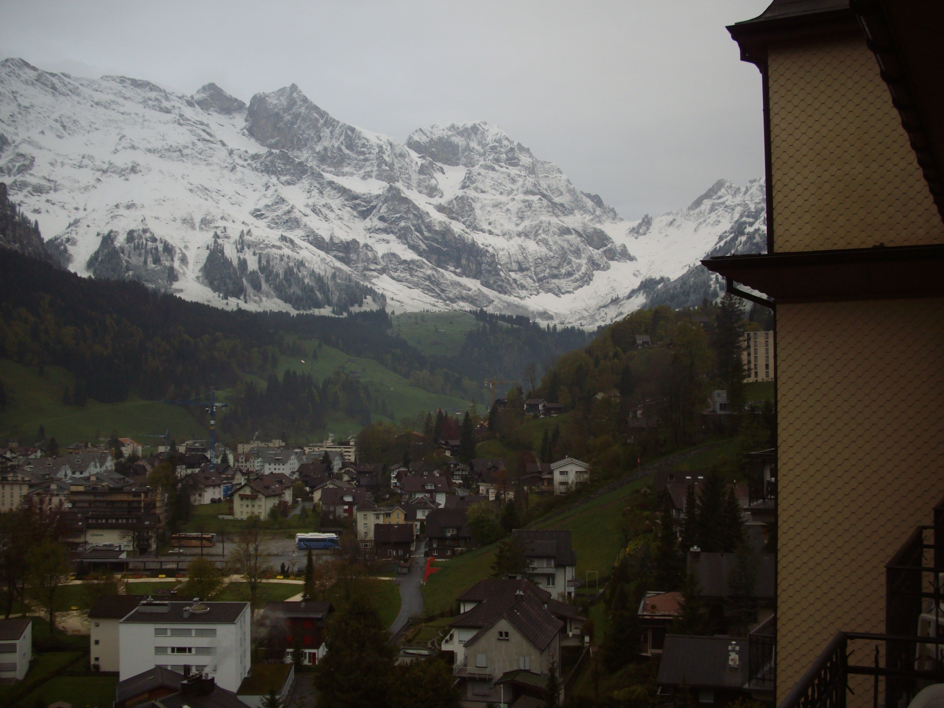 Snow capped "Ulner alps" as seen from "Edeilweiss Hotel".